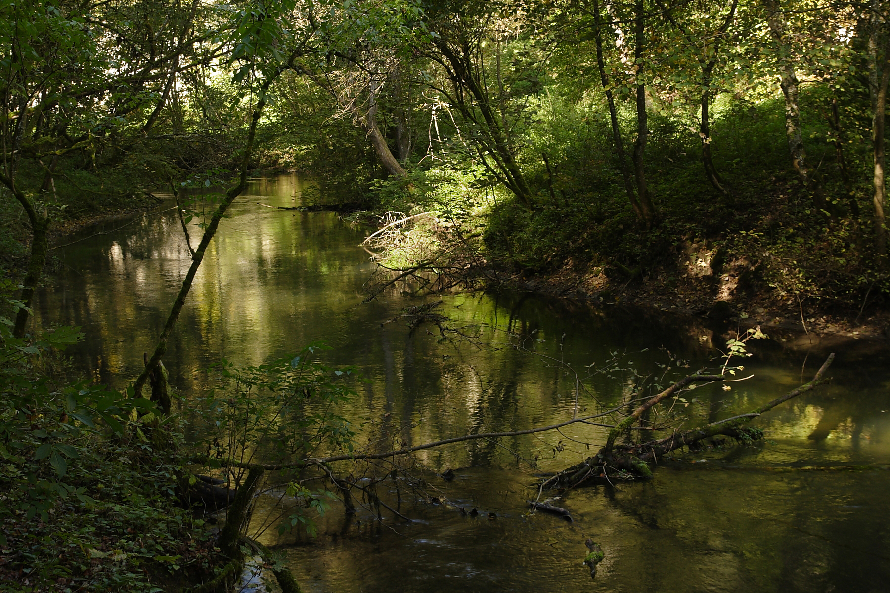 Junglelike canyon "Bittelschießer Täle", Swabian Alb. This is a remarkable fluvial erosion of the relatively small river Lauchert, which removed glacial moraines and then cut a massive limestone. The canyon is protected by German nature legislation (as a geotope, same strict protection as ecotope or nature reserve).